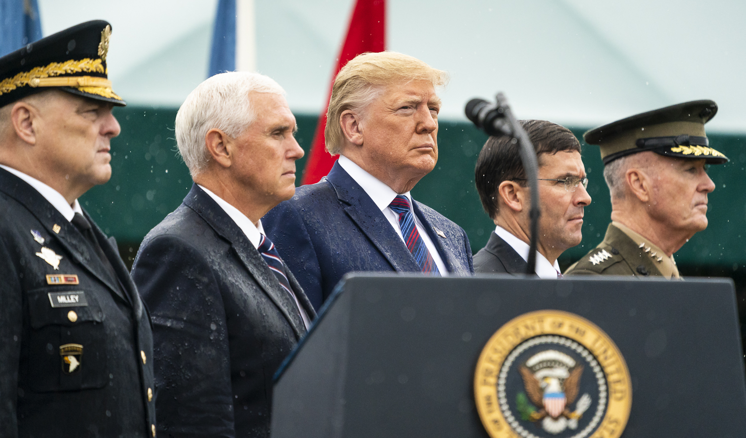 President Donald J. Trump, joined by Vice President Mike Pence, participates in an Armed Forced Welcome Ceremony in honor of the 20th Chairman of the Joint Chiefs of Staff Monday, Sept. 30, 2019, at Summerall Field, Joint Base Myer-Henderson Hall, VA (Official White House Photo by D. Myles Cullen)